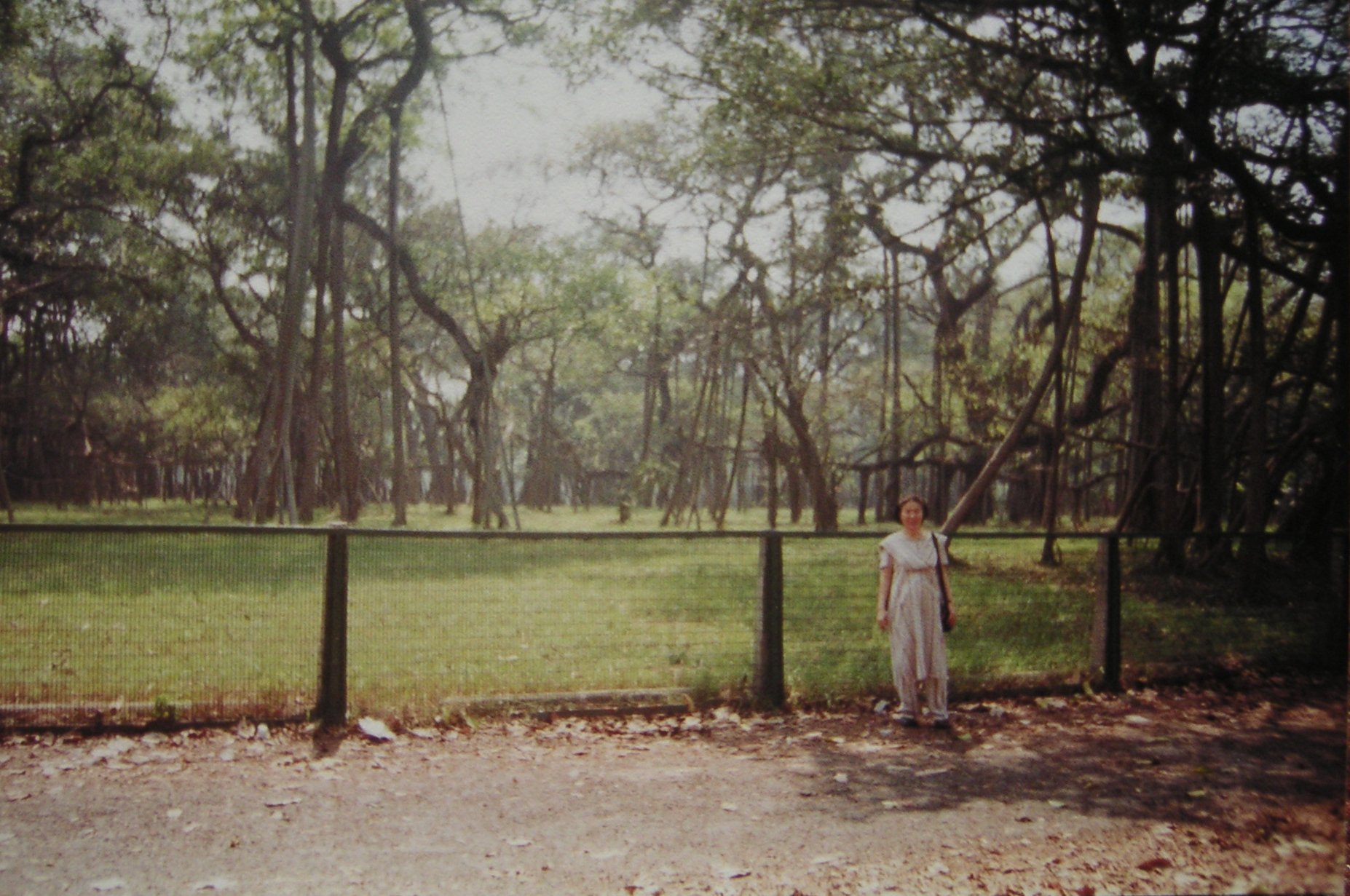 The Great Banyan tree in Indian Botanical Gardens, Howrah